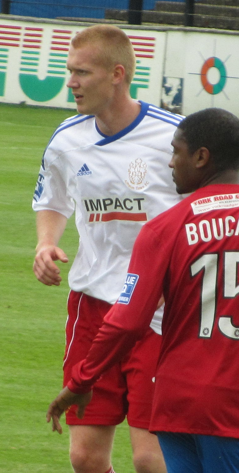 Levi Mackin playing for Alfreton Town against York City at Bootham Crescent, York on 29 August 2011